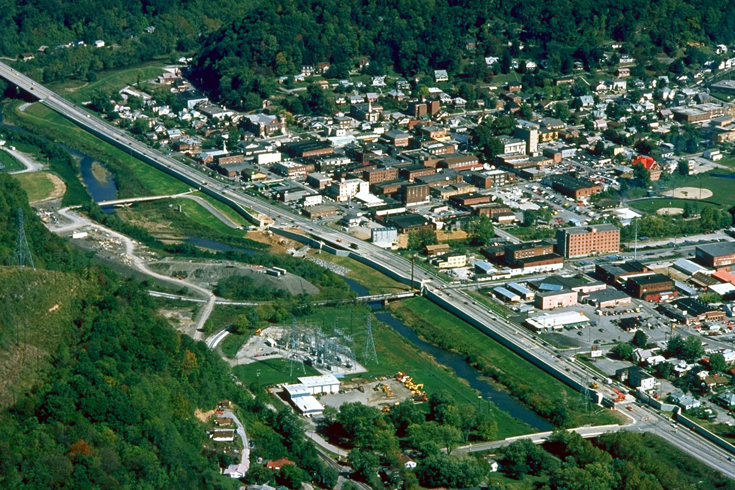 Aerial view of Harlan, Kentucky, USA. View is to the northeast. The main highway, U.S. Route 421, runs diagonally across the picture. The U.S. Army Corps of Engineers has constructed levees and a long floodwall along the Martins Fork River to prevent recurrence of the disastrous floods of 1977.